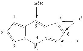 IUPAC nomenclature of BOdiPY